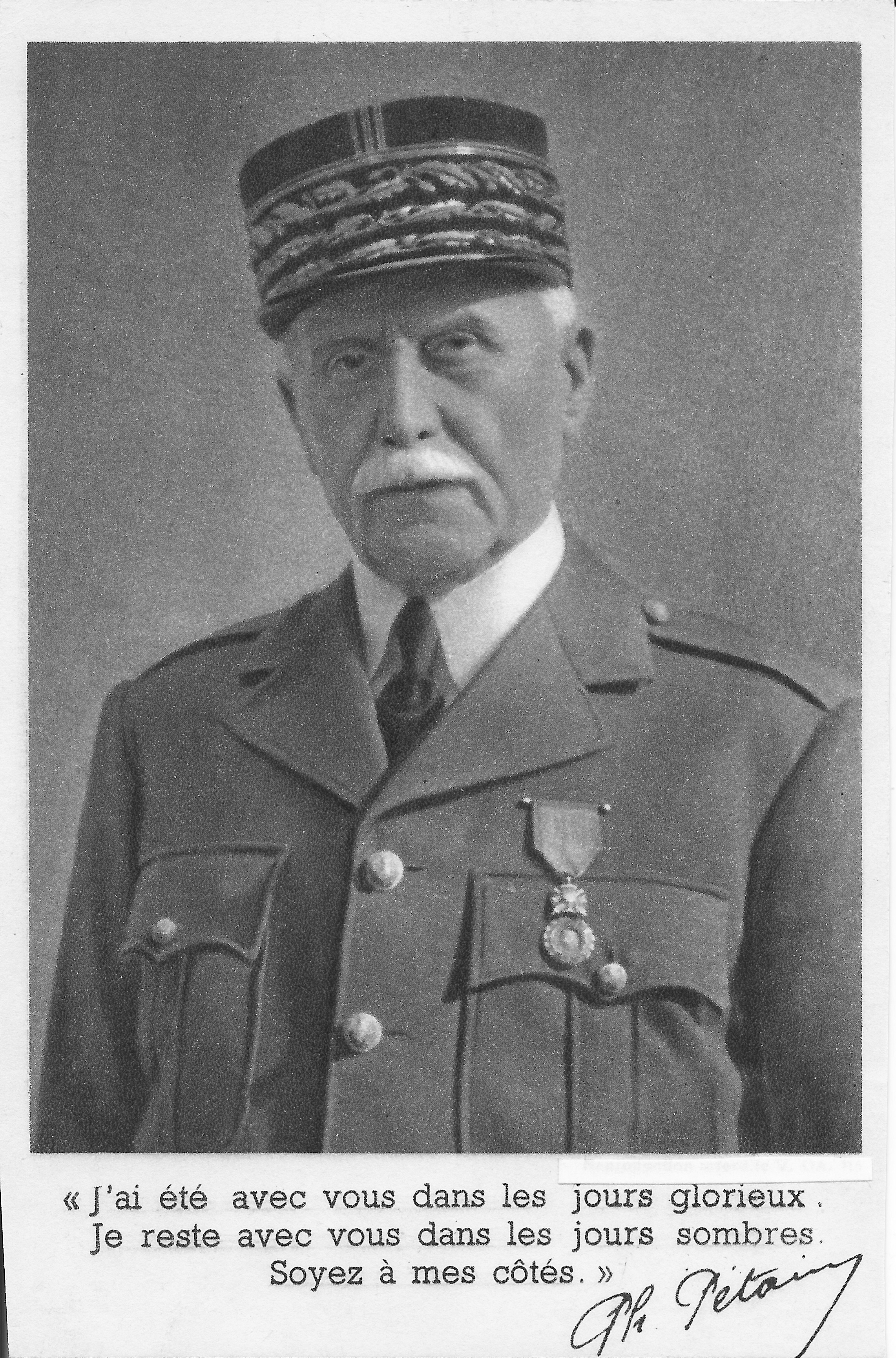 Postal card of Philippe Pétain sold 1 franc for the governemental association "Secours National".